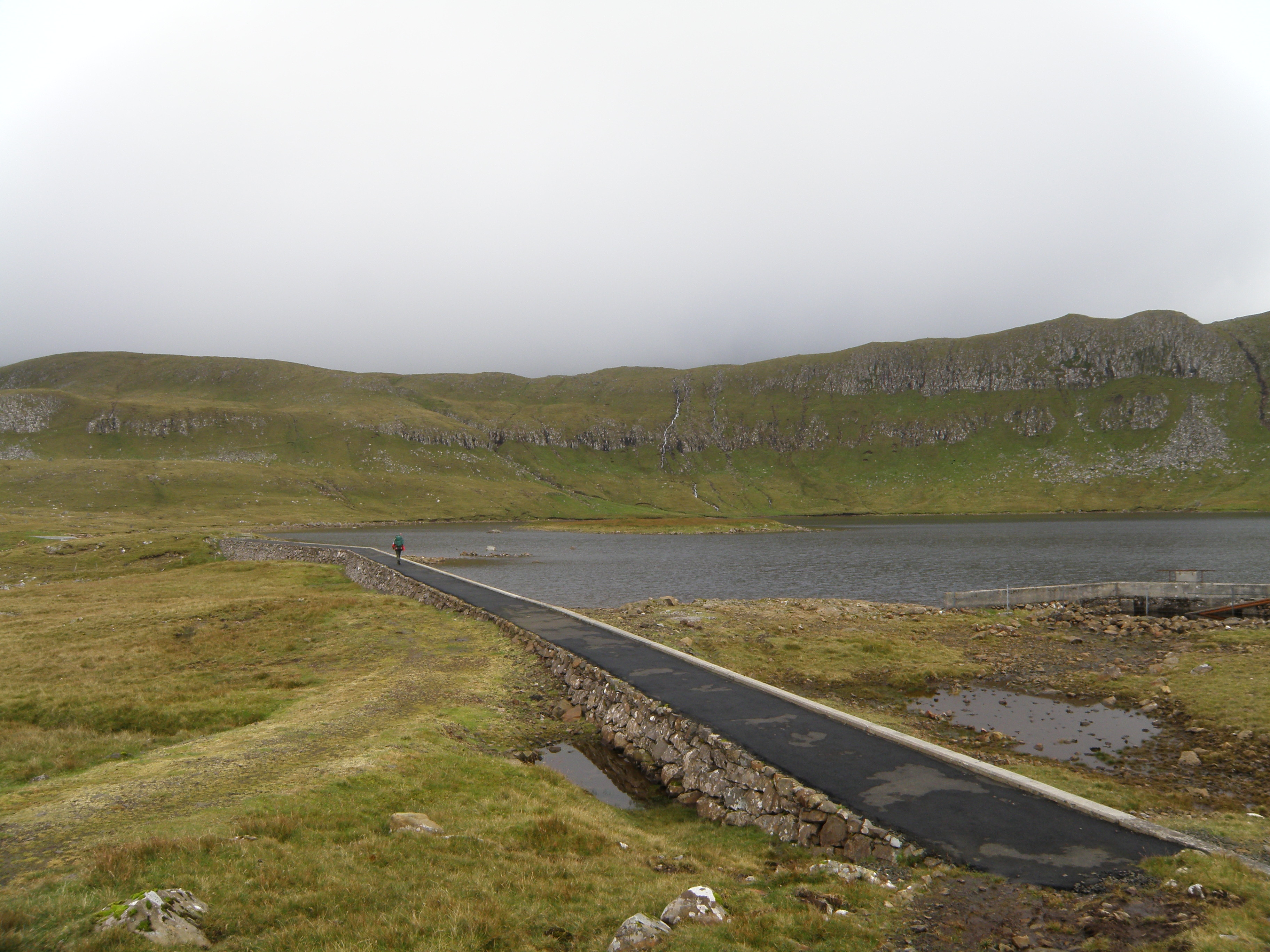 Ryskivatn is a lake in the island Suðuroy in the Faroe Islands. It is located up in the mountains north-west of Vágur. The water from this lake and some other lakes which are further up in the mountains deliver water to the hydro power plant in Botni, which was the first electric power plant of the Faroe Islands and the second hydro-electric power plant in the Danish Kingdom. It was ready to use in 1921. Føroyskt: Ryskivatn er eitt vatn í Suðuroynni, tað liggur í ein útnyrðing úr Vági, norðan fyri Botn, har Føroya fyrsta elektrisitetsverk liggur. Verkið framleiðir el-orku úr orkuni ið kemur frá vatninum úr Ryskivatni og úr øðrum vøtnum, ið liggur hægri uppi enn Ryskivatn. Vatnið rennur við nógvari ferð gjøgnum tjúkk rør oman í Botn, har turbinur framleiða elorku úr vatninum.